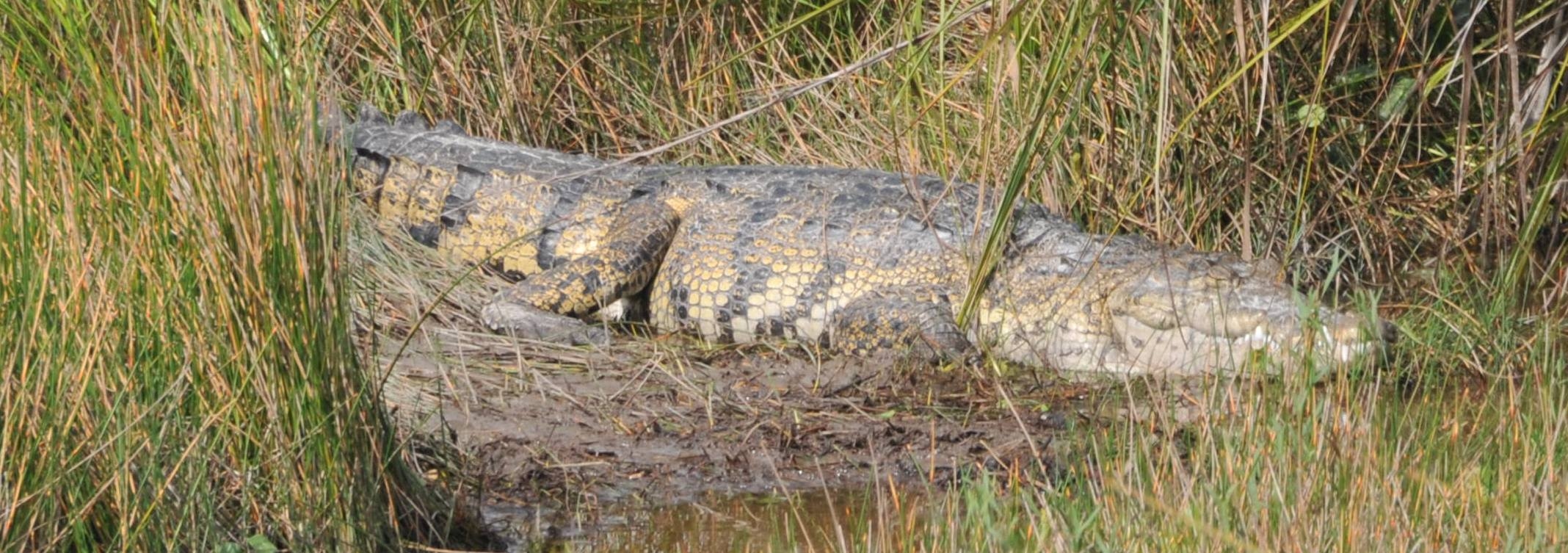 Morelet's Crocodile in the wild next to the road near Lake Coba, Quintana Roo, Mexico.